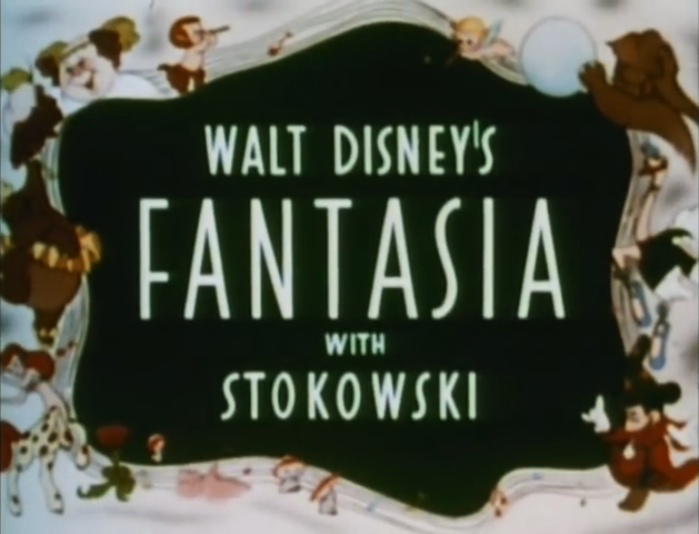 Logo for the 1940 Walt Disney film Fantasia, as seen in the film's original theatrical trailer.